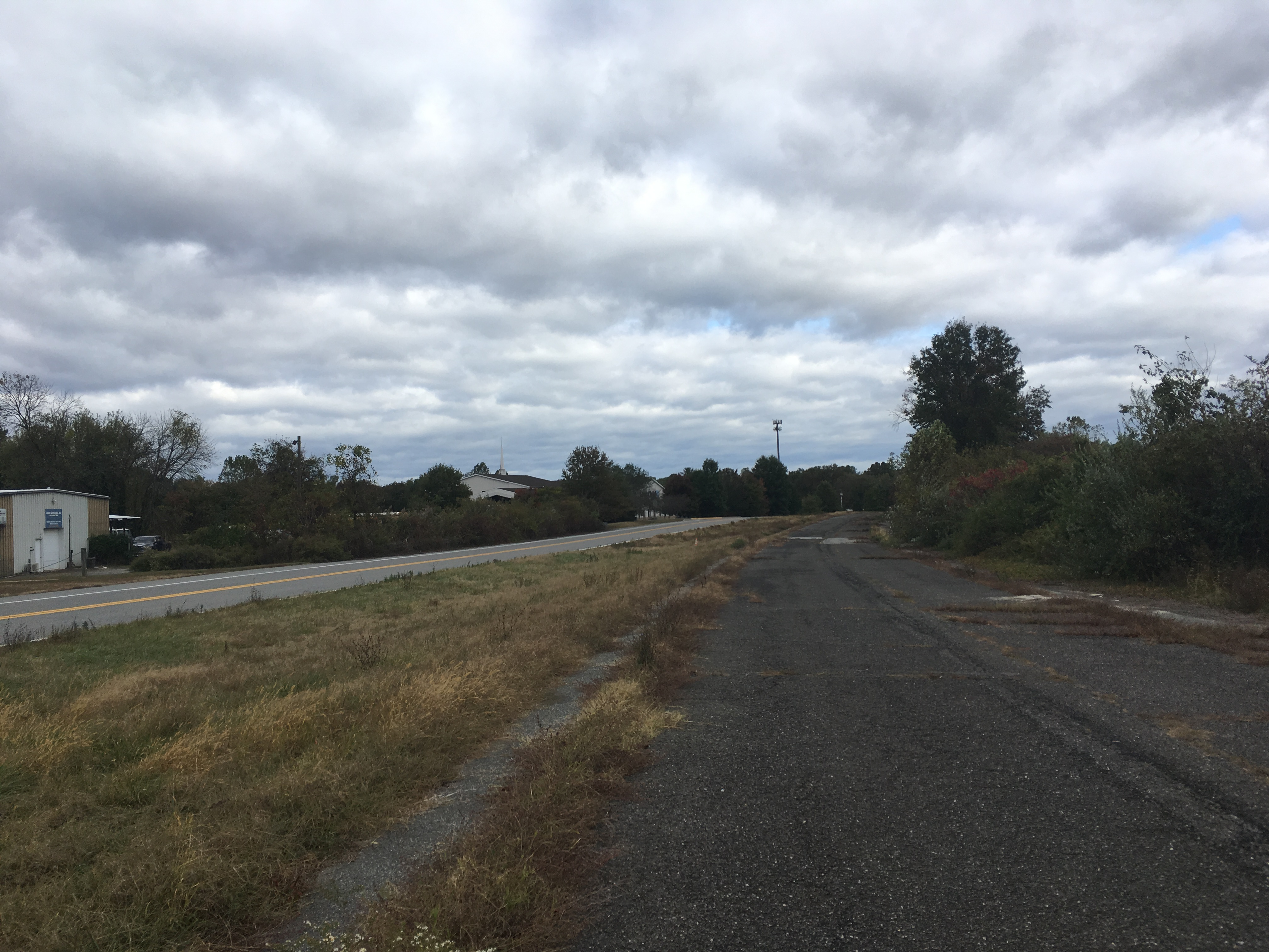 Northbound Old South Dupont Highway past the intersection with Delaware Route 7 (Bear Corbitt Road) near Delaware City, Delaware. This is the former divided highway alignment of U.S. Route 13, with the southbound lanes serving as two-lane undivided Old South Dupont Highway and the northbound lanes abandoned.